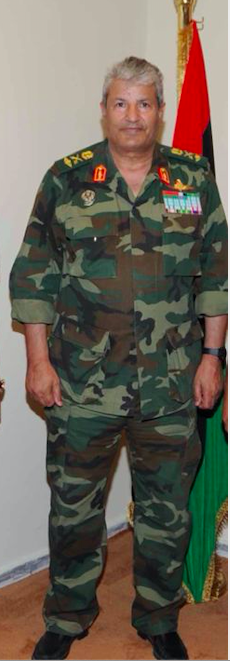 Abdul Fatah Younis (cropped 1)